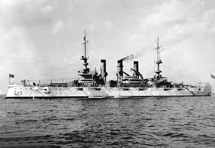 The USS Louisiana BB 19, Public domain photo from history.navy.mil